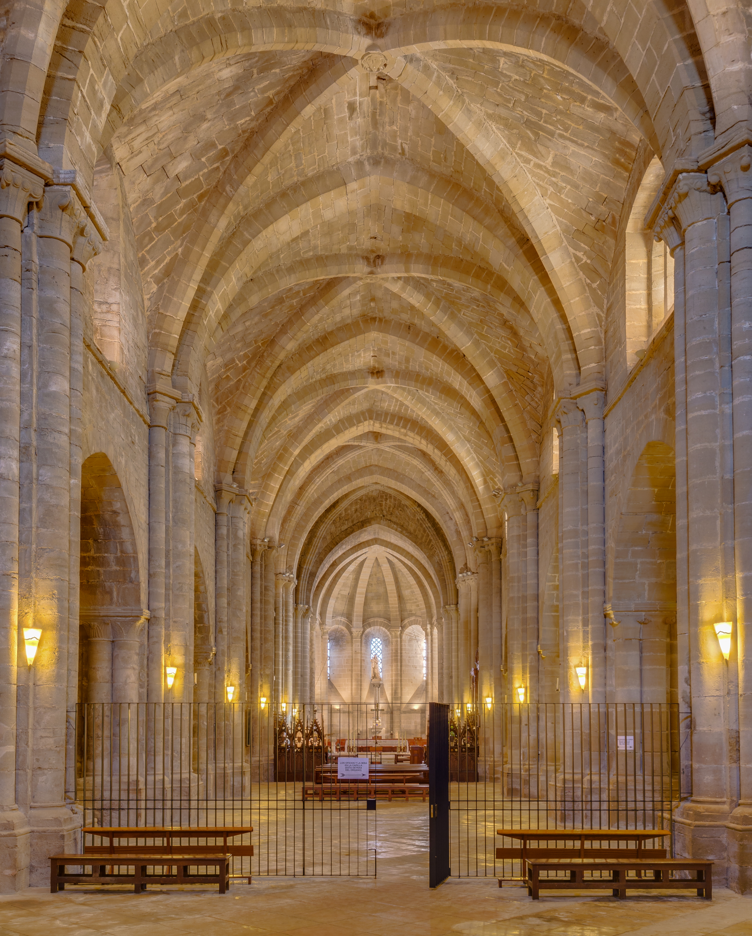 Cloister of the Monastery of la Oliva, Carcastillo, Navarre, Spain